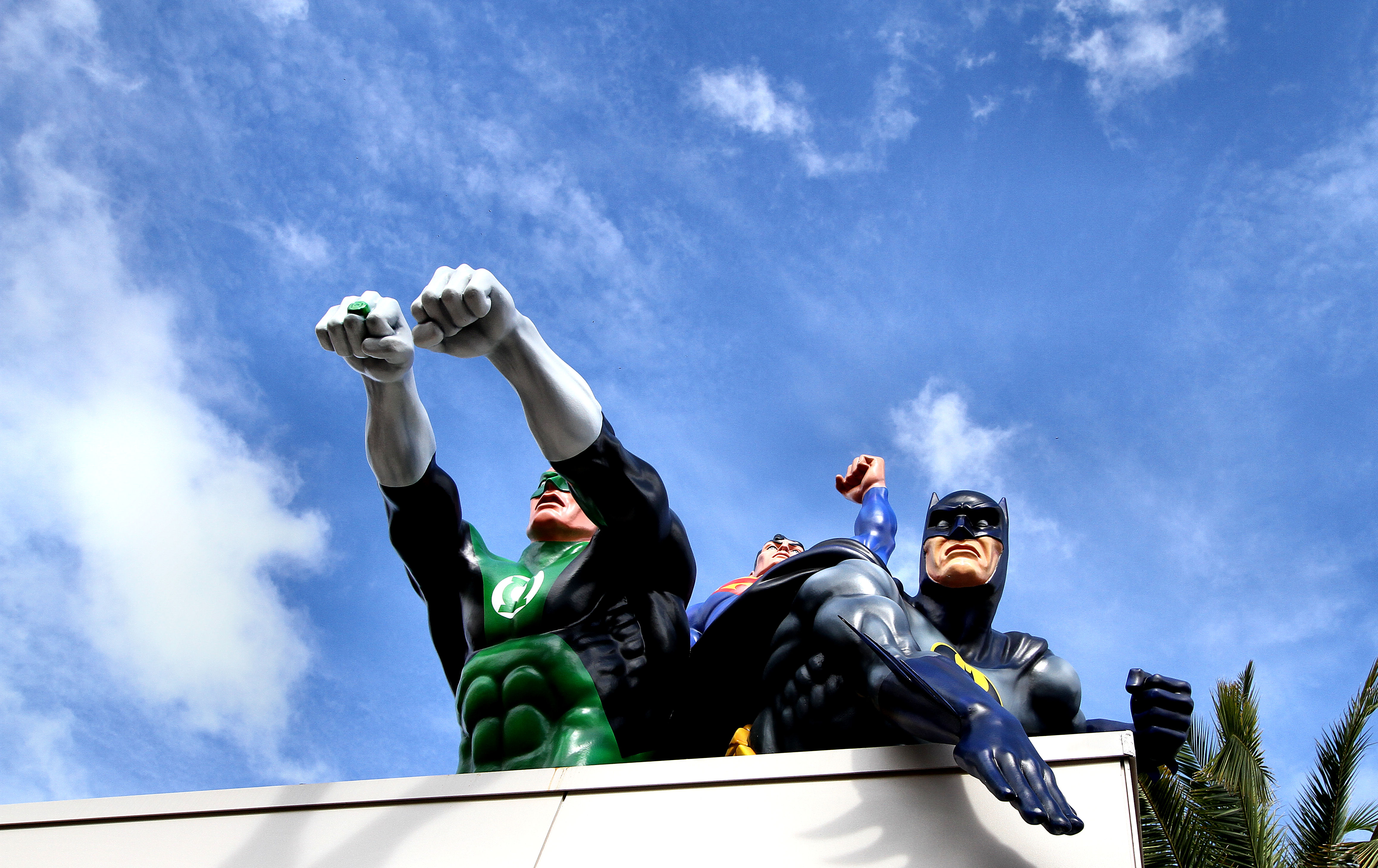 Gold Coast Australia